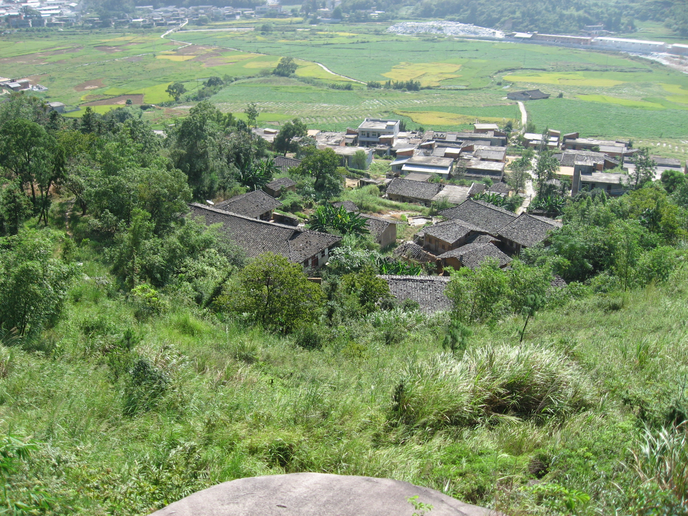 Luoyuan county of Fuzhou City, China